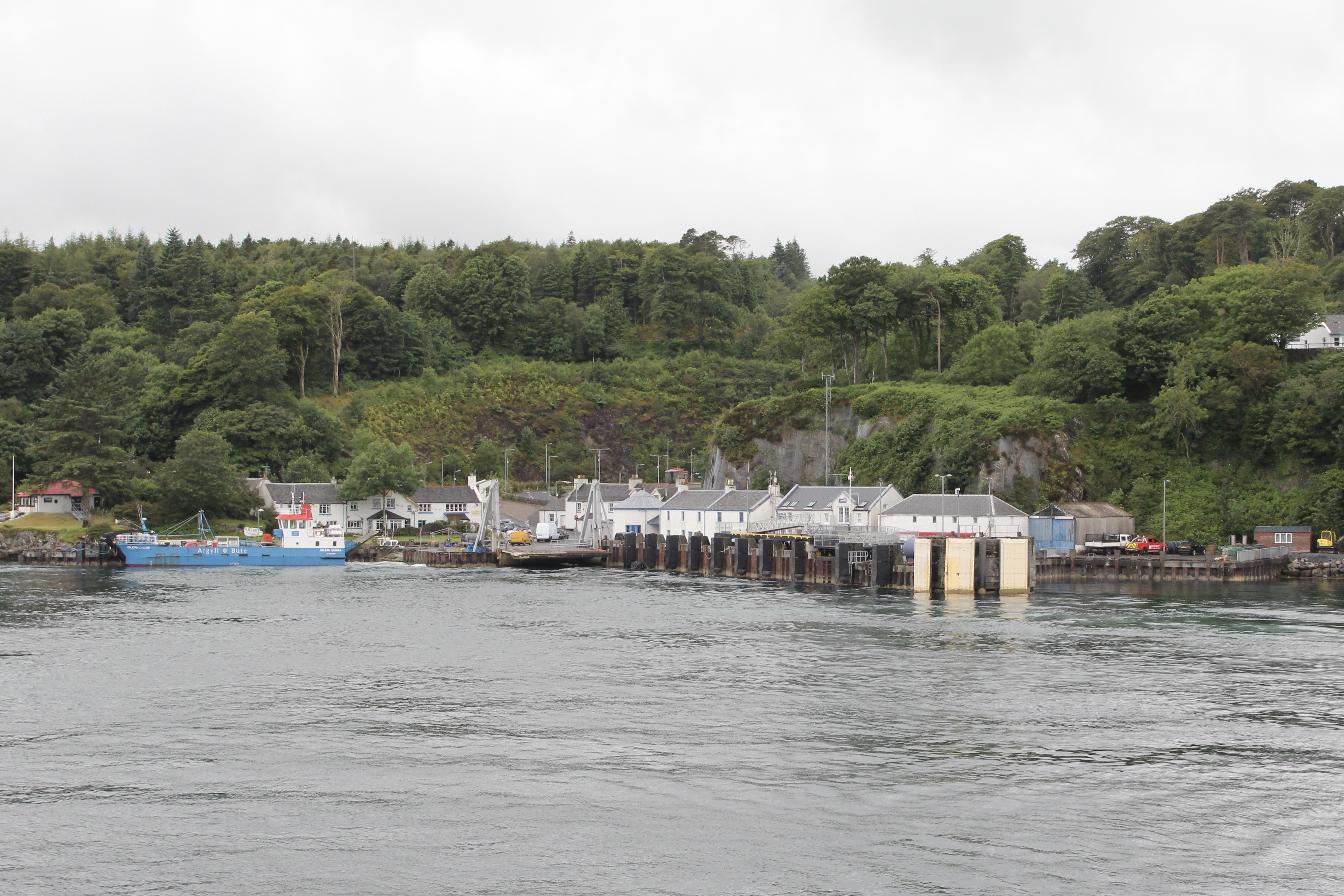 seen from sea: departure port of the ferries towards Kennacraig and Jura